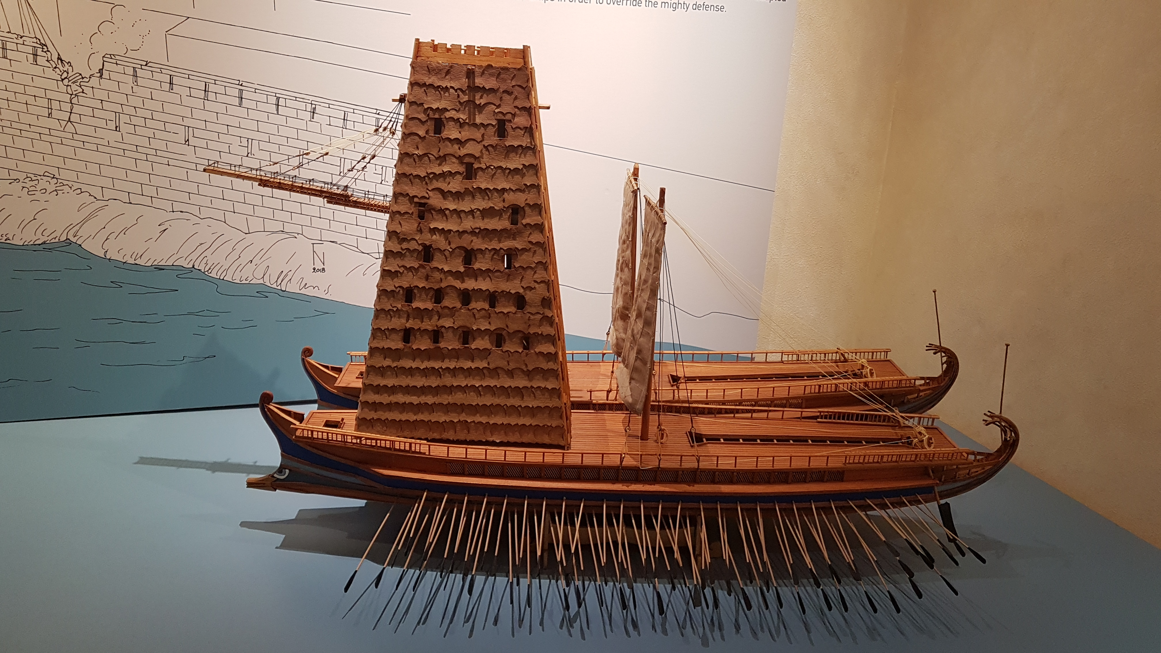 Two quinqueremes having a helepolis on their deck. Study-Construction: D. Maras